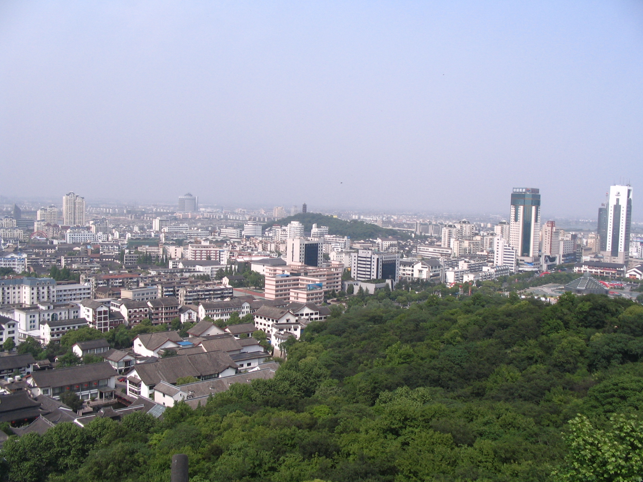 Shaoxing has a good mixture of parkland and city. And lots of pagodas.